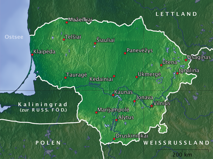 Map of Lithuania (German) NOTE: it has errors - Elektrėnai labelled as Jonava